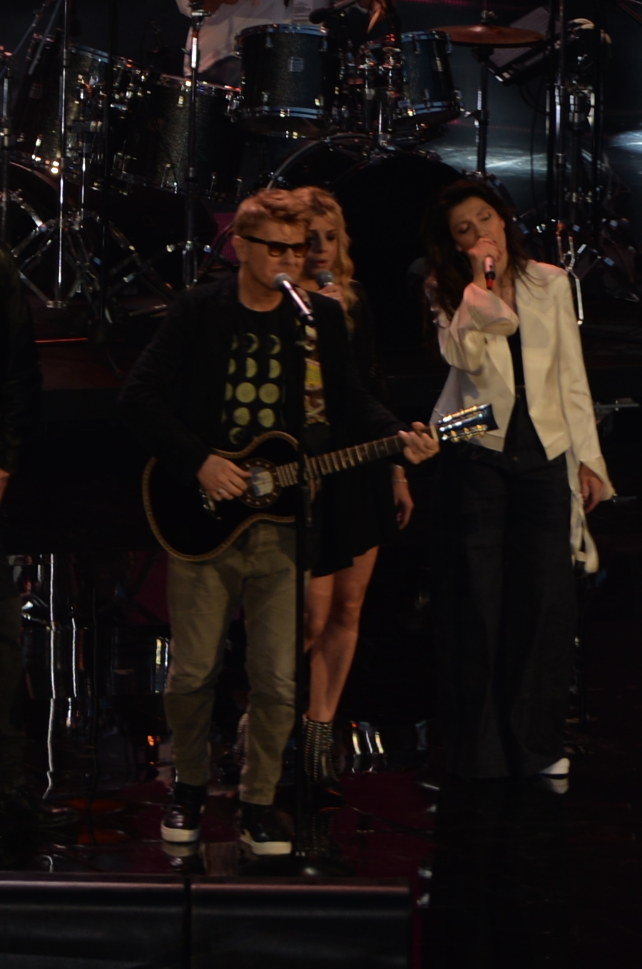 Ron during the 2016 Wind Music Awards ceremony at Verona Arena